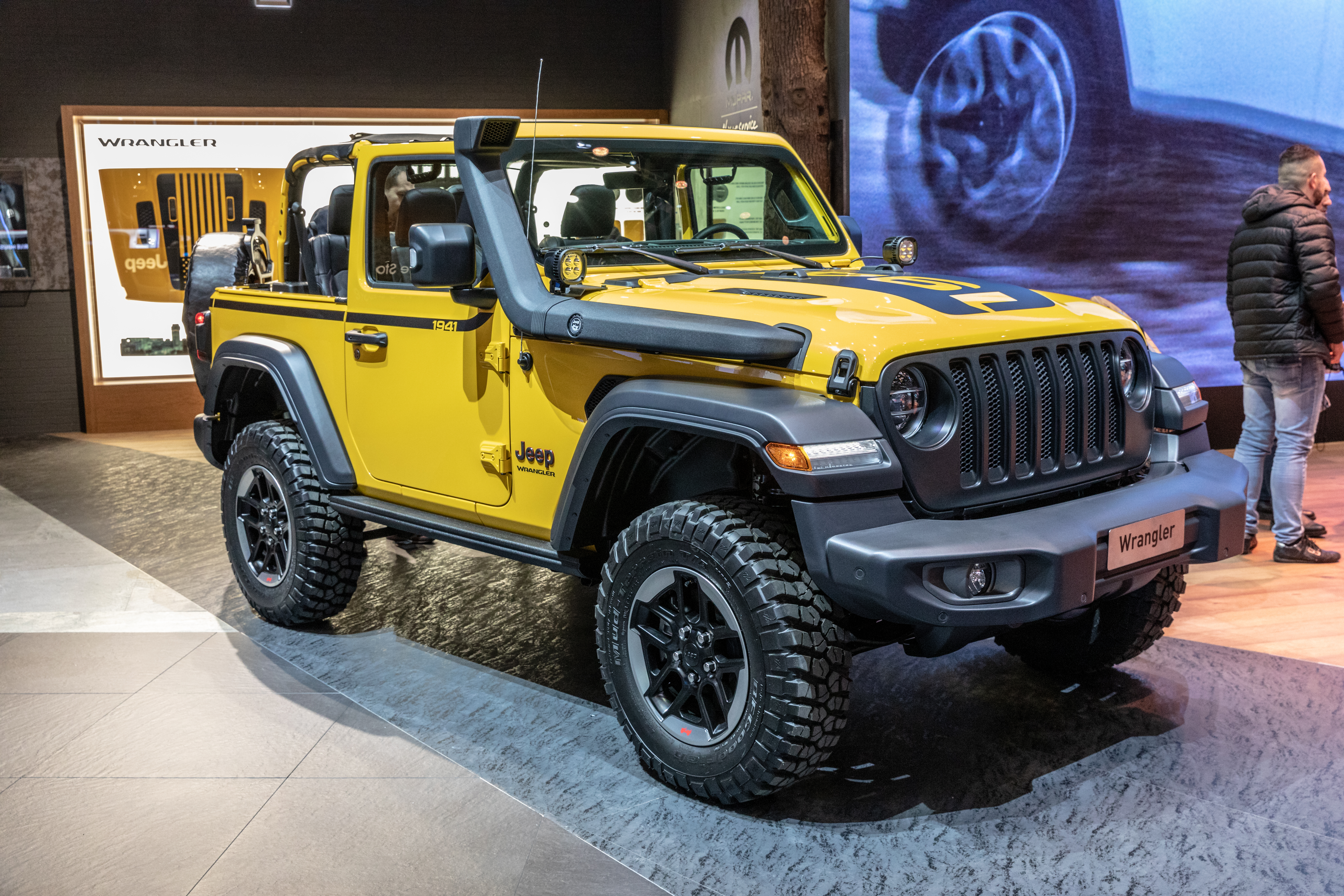 Jeep Wrangler Rubicon 1941 edition at Geneva International Motor Show 2019, Le Grand-Saconnex